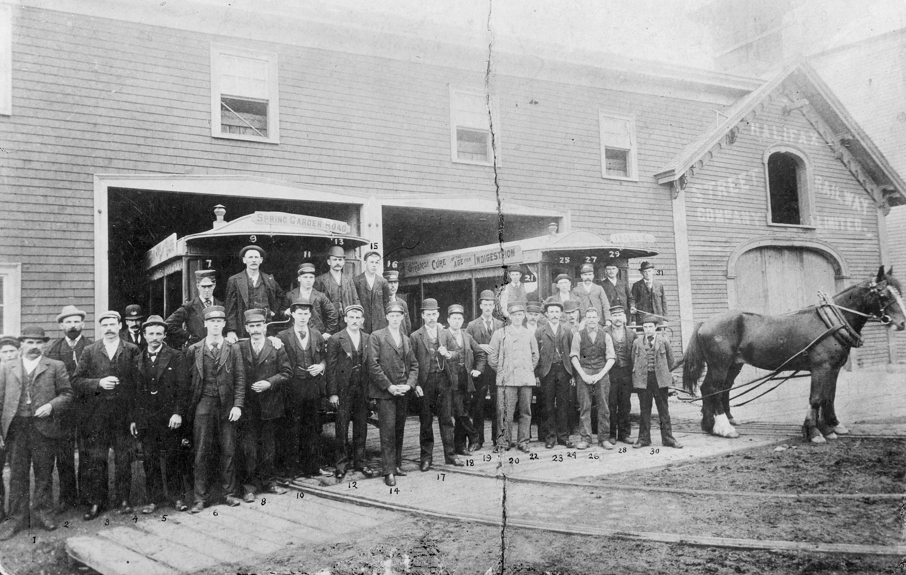 Manager James Adams and most of conductors, drivers, etc., with two open (summer) Horse Cars, Halifax Street Railway Co., Halifax, N.S., in front of the Company's Car Barn, S.E. corner of Campbell's Road & Hanover St., Richmond, Halifax, N.S.